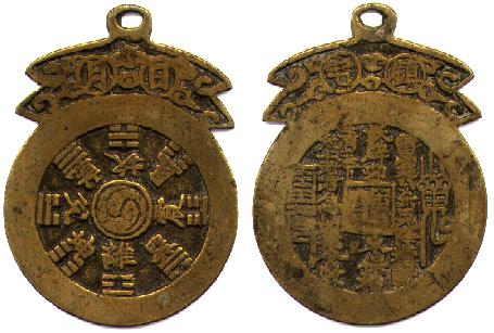 Magic Spell combined with Eight Trigram Section 6.2: Gourd shape 70 mm tall x 50 mm wide Obv.: Eight Trigrams with characters Rev.: "May the wrath of the God of Thunder (Leigong) destroy the devils and send down purity! May bogies be killed and thus free us from evil influences and keep us eternally safe! Receive this command from T'ai Shang Lao Chun (Lao Tzu) and let it be executed as fast as Lu Ling (the famous runner of the time of Mu Wang - 10th century B.C.)!" Meaning: Ref.